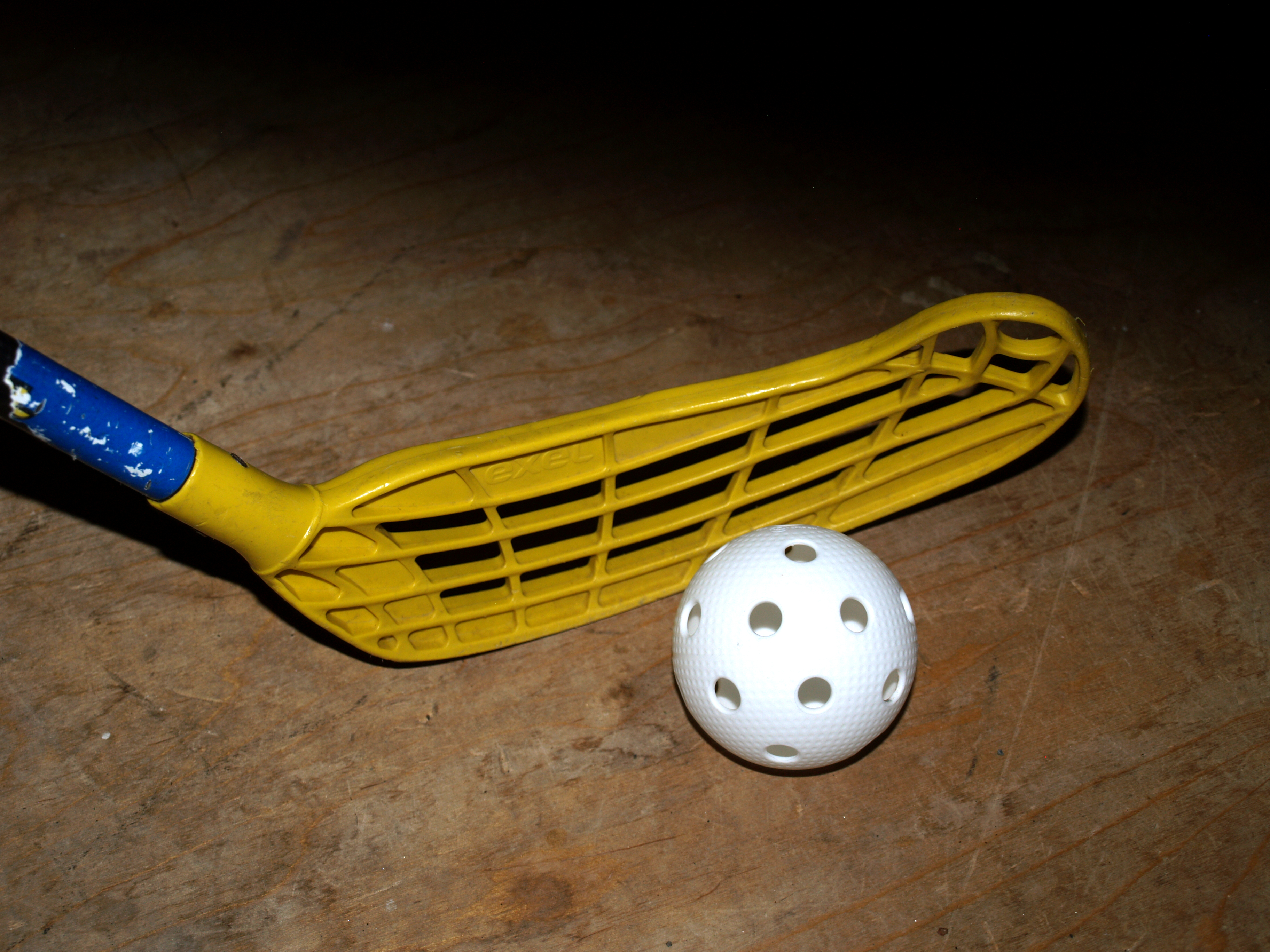 Exel floorball stick blade and ball